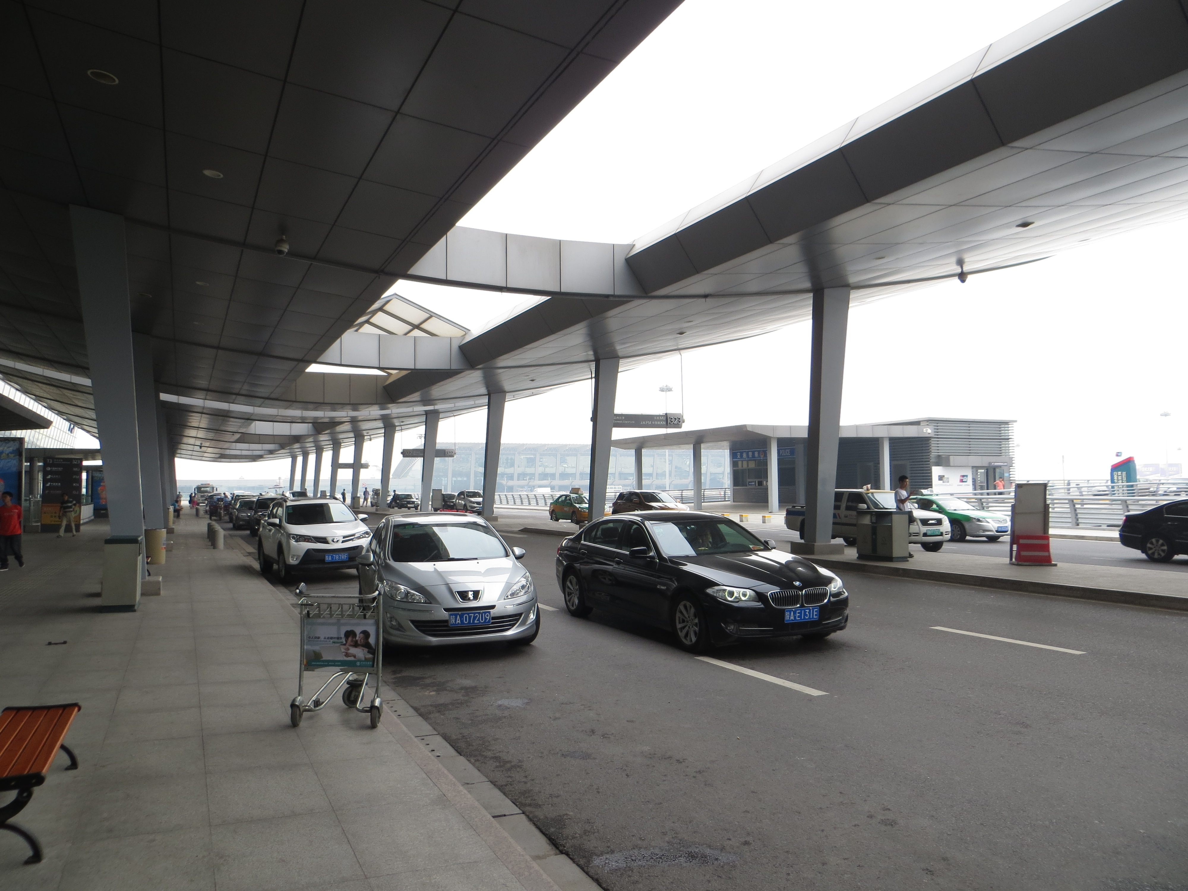 The drop-off zone at Terminal 3 at Xi'an Xianyang Int'l Airport, China.